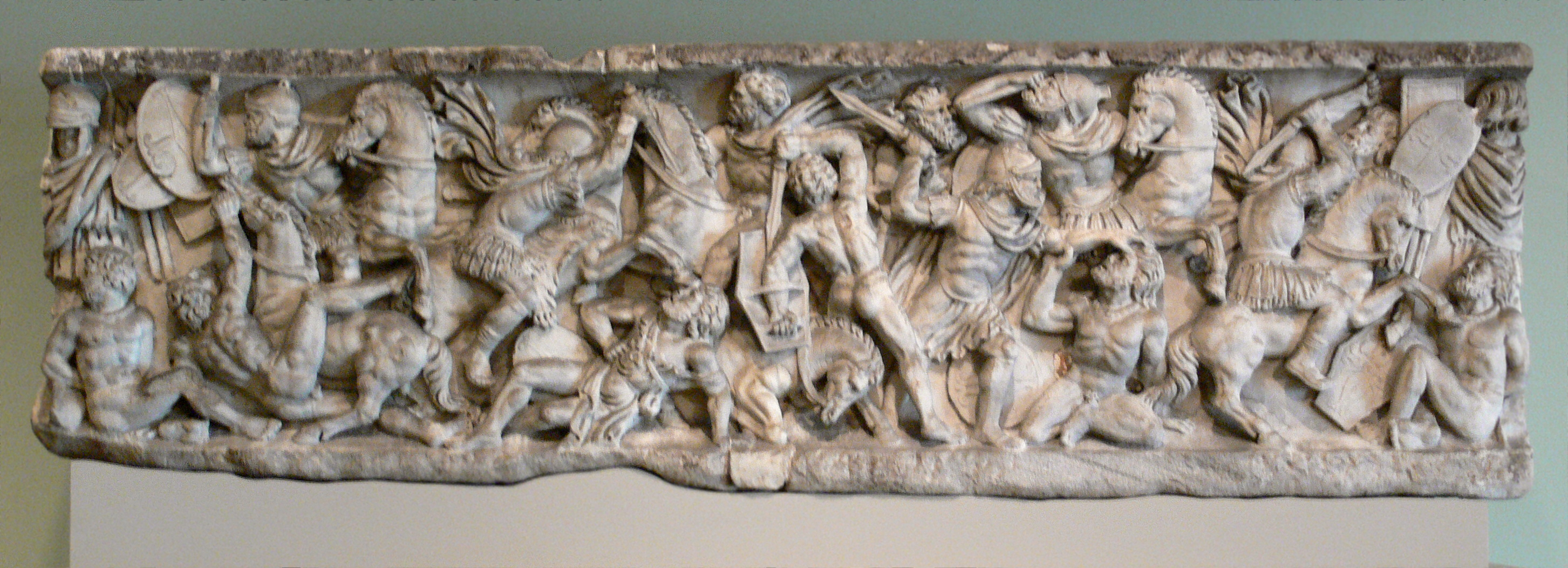 Battle sarcophagus; Roman, c. 190 A.D.; 63.5 cm x 208.3 cm x 63.5 cm; Marble; Dallas Museum of Art, Dallas, Texas; Cecil and Ida Green Acquisition Fund and gift of anonymous donor; object number 1999.107